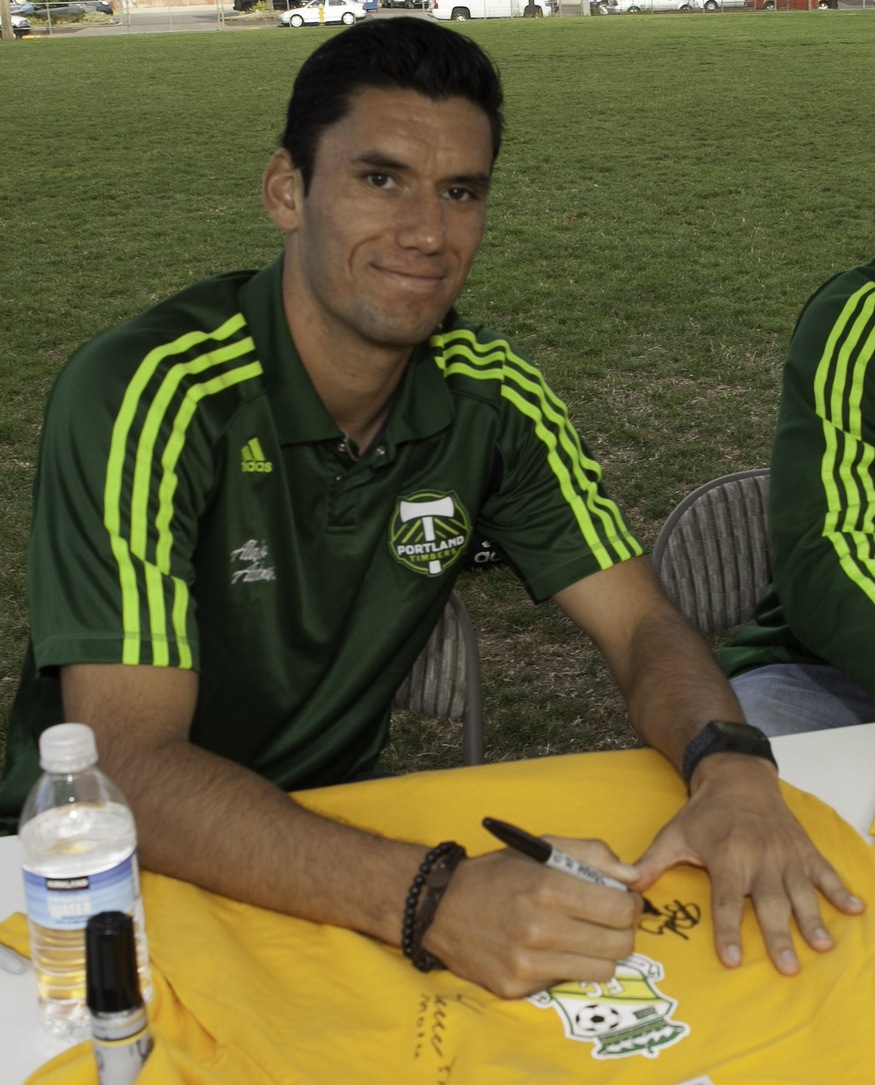 Steve Purdy of the Portland Timbers at a community event